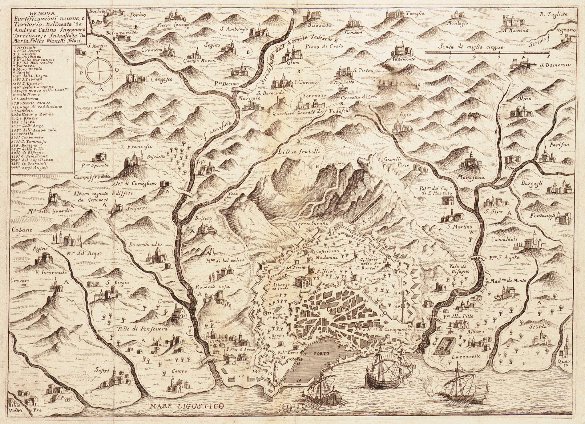 Carta antica di Genova